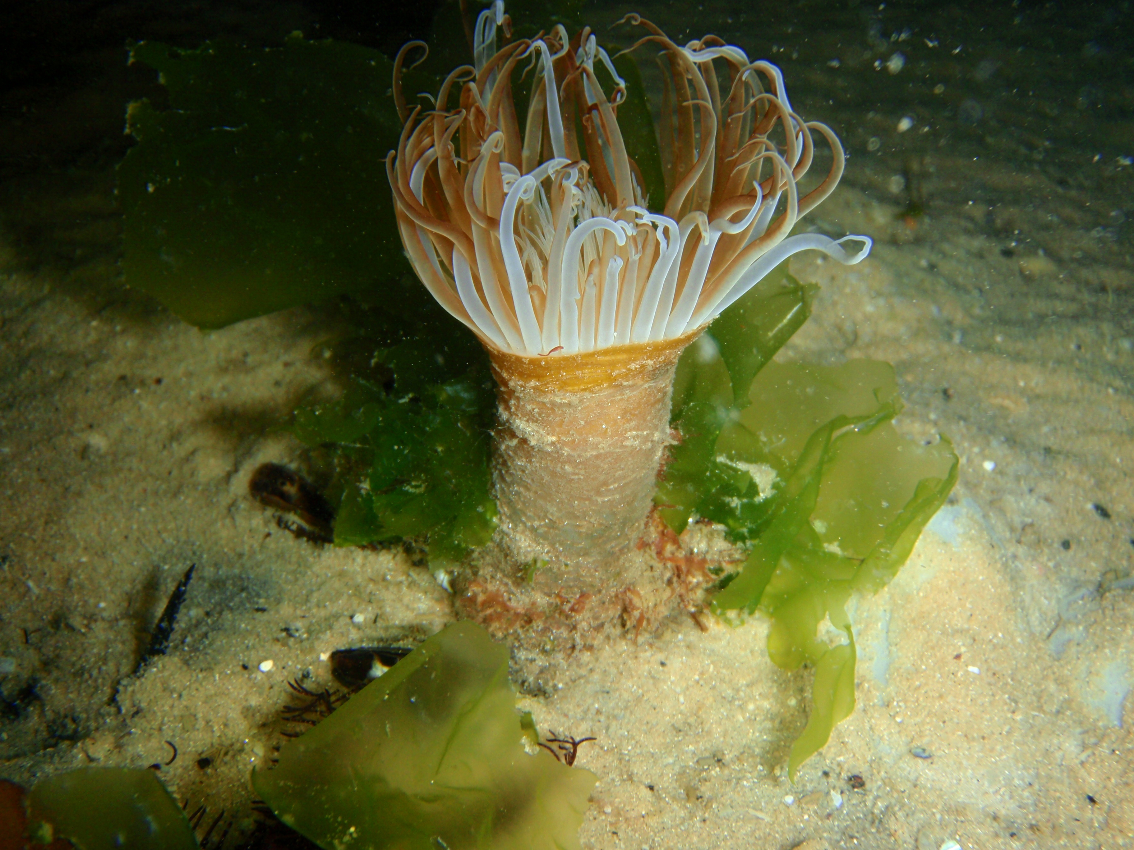 Cerianthid at Long Beach